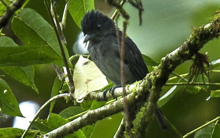 Slaty Becard (Pachyramphus spodiurus), South Ecuador